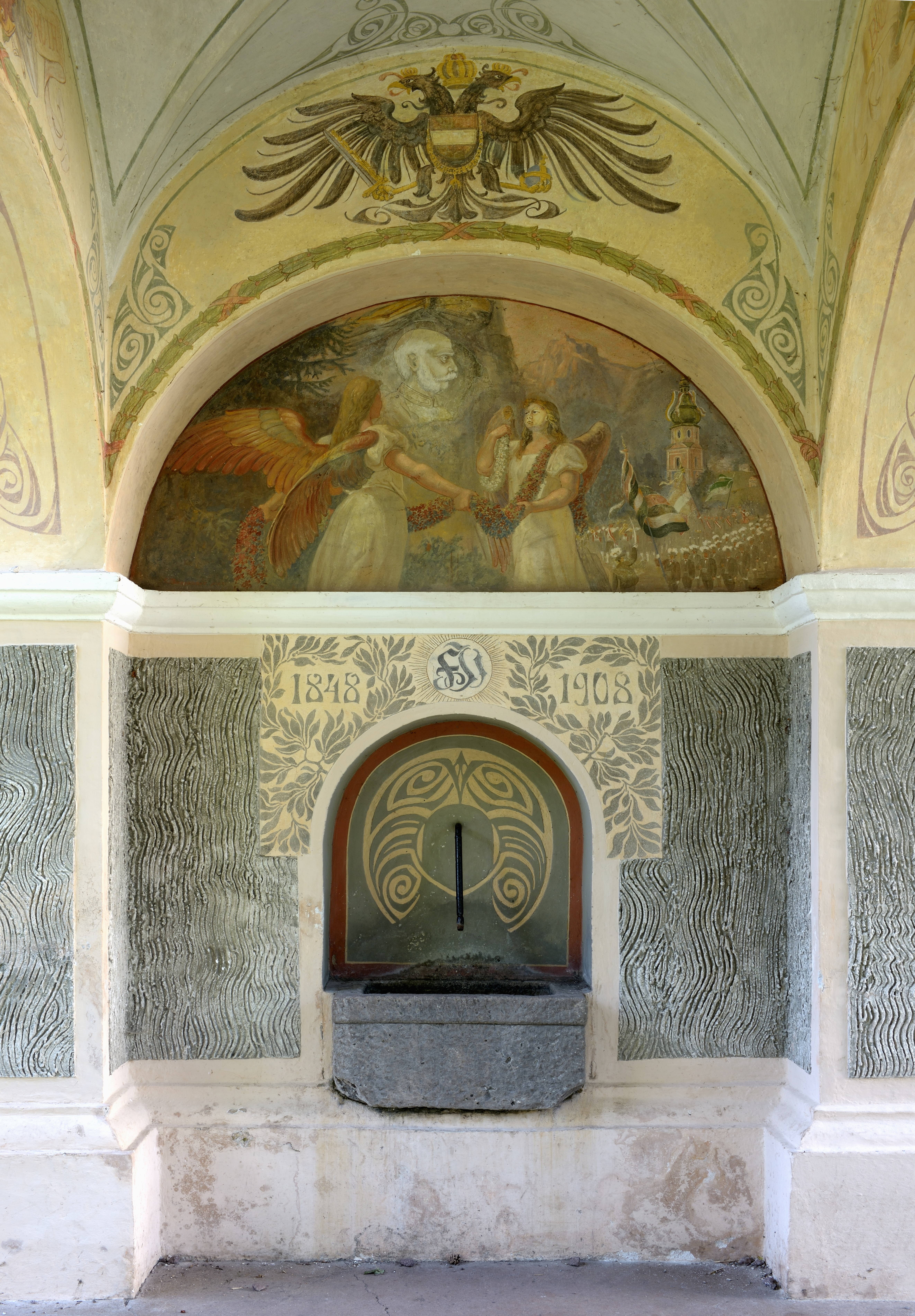 Jubilee fountain for the emperor Franz Josef of Austria in Kastelruth.